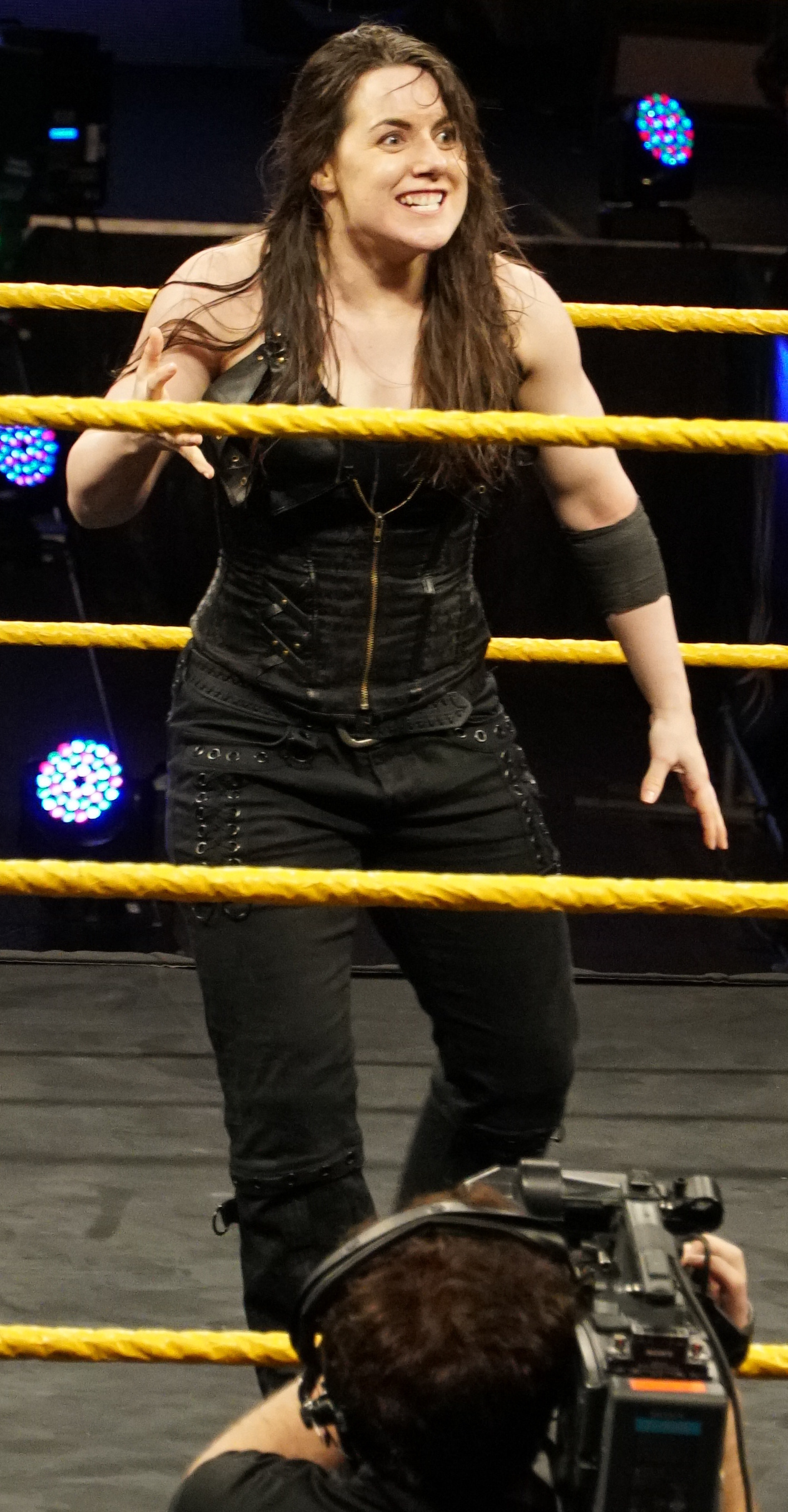 NOLA 2018 - WWE Axxess - Thursday - Nikki Cross Vs Aliyah Nikki Cross def. Aliyah ( Deux semaines a Nola pour la ville et pour WWE Wrestlemania XXXIV Two weeks Nola for the city and for WWE Wrestlemania XXXIV )